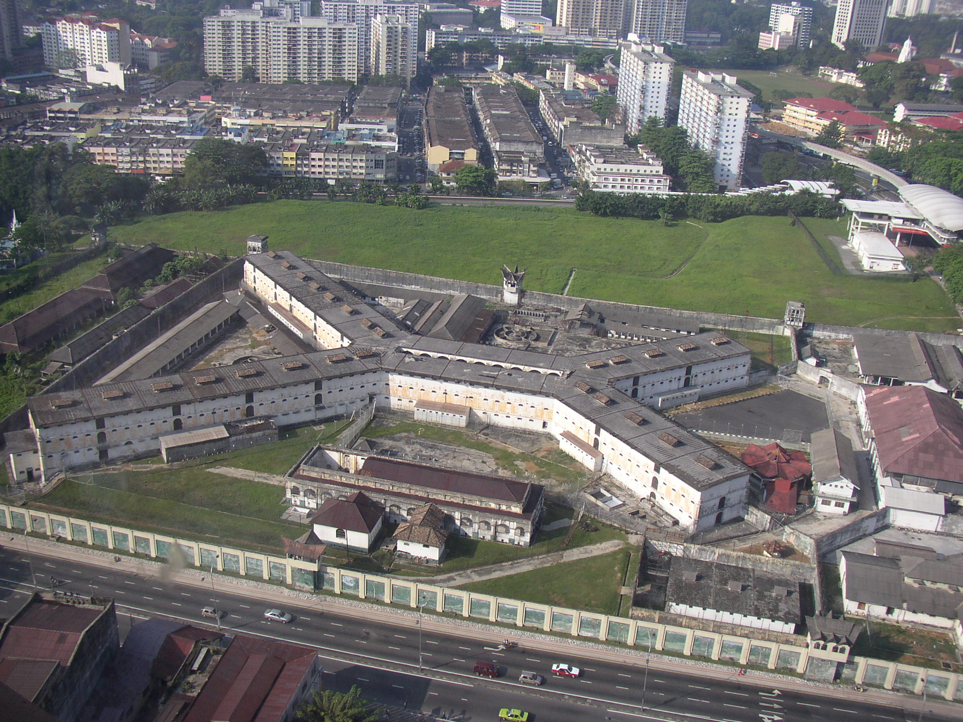 Aerial view of Pudu Prison.